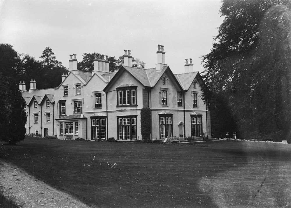 Abstract: Pencerrig Estate, Builth Wells